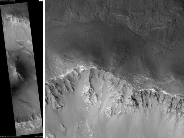 Arandas Crater, as seen by HiRISE. Location is 42.4 North and 345 East. Scale bar is 1000 meters long.